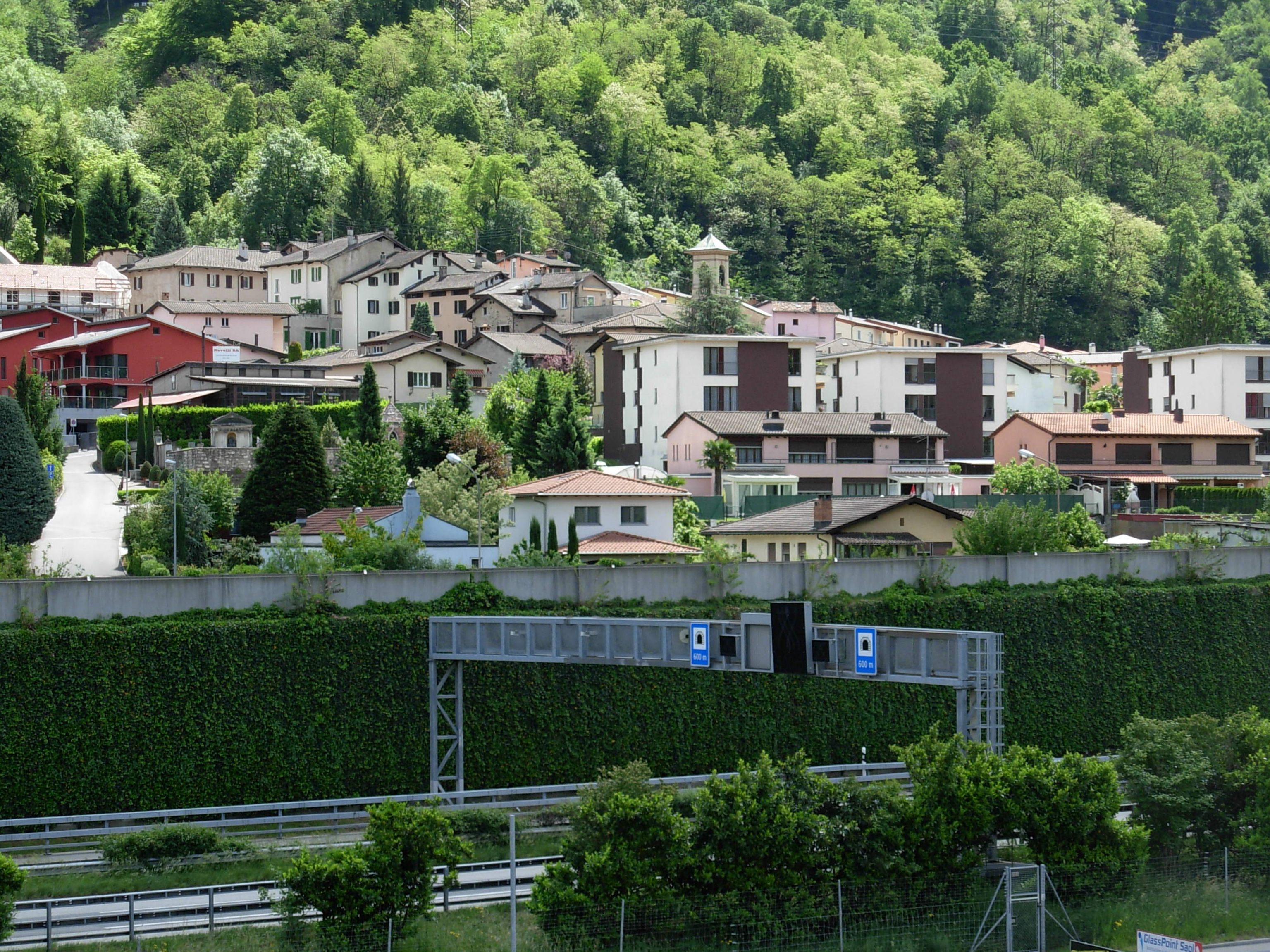 The village Grancia in the Swiss Canton of Ticino seen from West